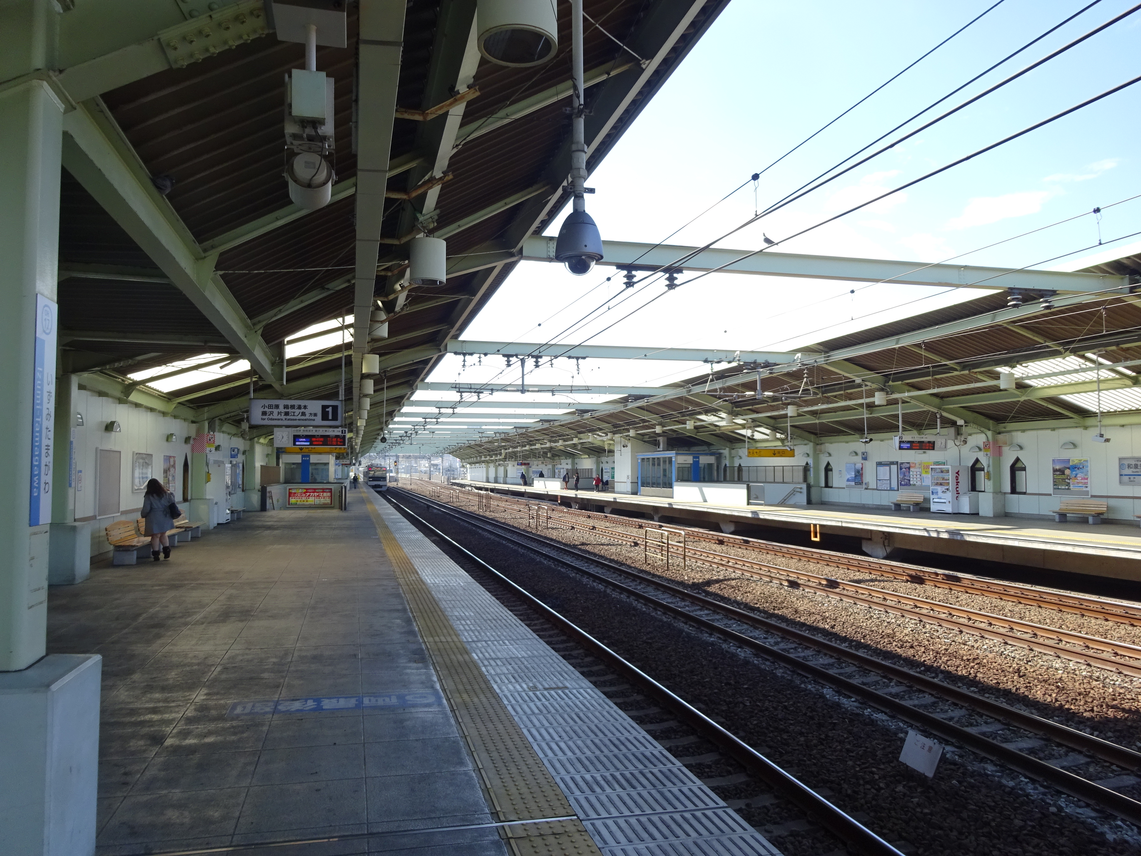 Platforms of Izumi-Tamagawa Station